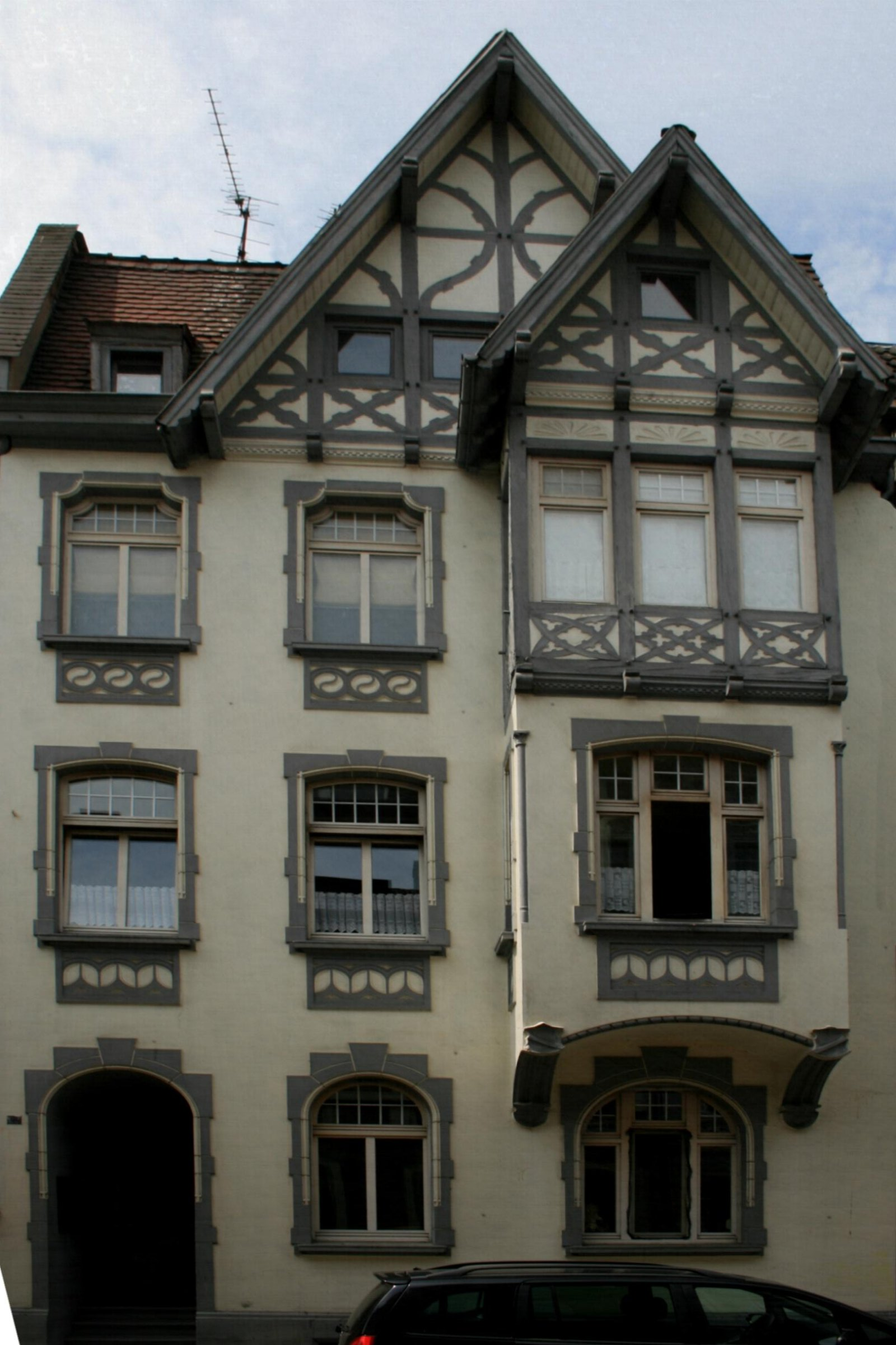 Cultural heritage monument No. B 010 in Mönchengladbach